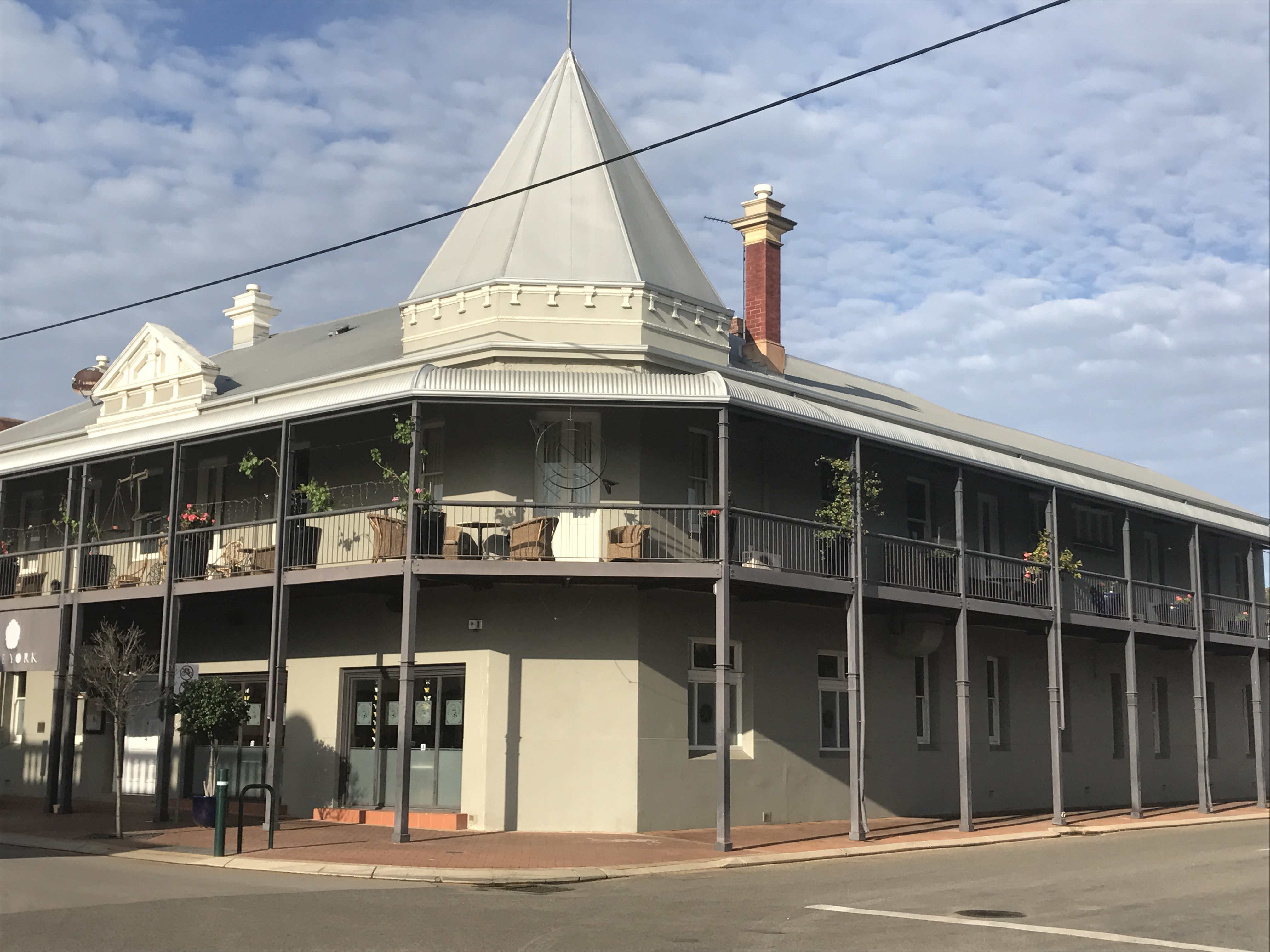 Hotel built in York, Western Australia in 1909